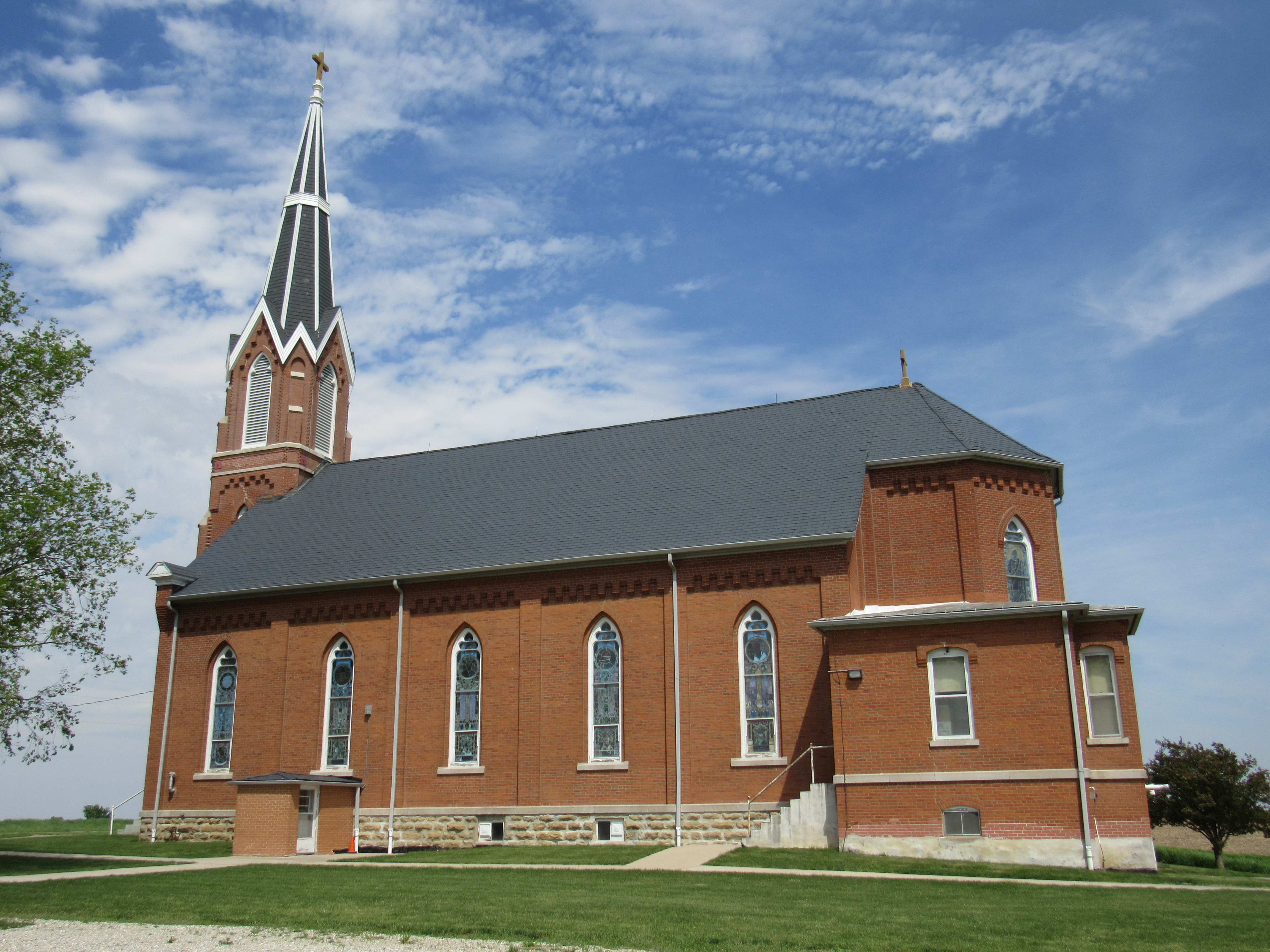 Saints Peter and Paul Roman Catholic Church southeast of Harper, Iowa in Clear Creek Township.